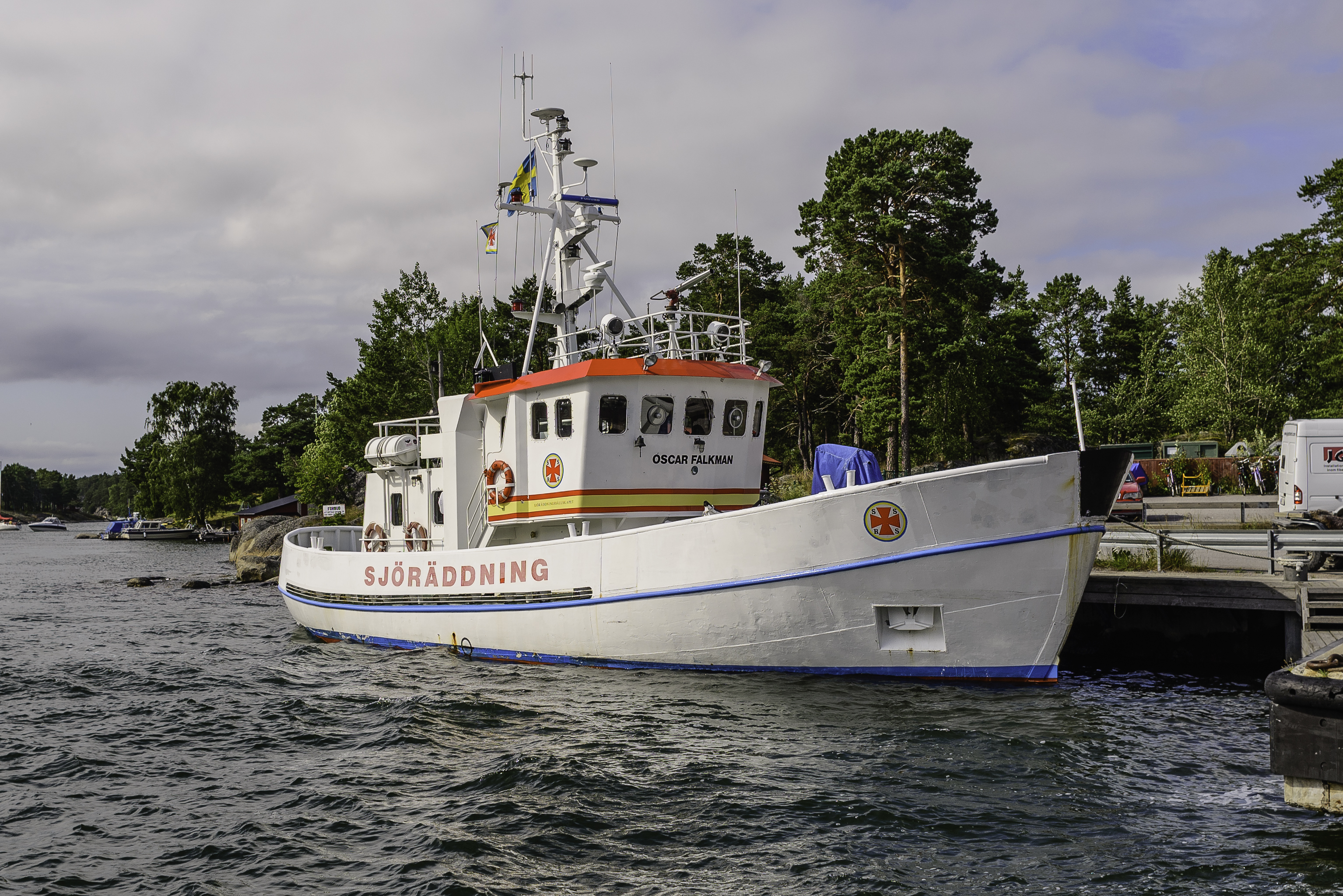 Swedish Sea Rescue Society's rescue boat Oscar Falkman at Möjaström jetty on the island Möja, Stockholm archipelago.